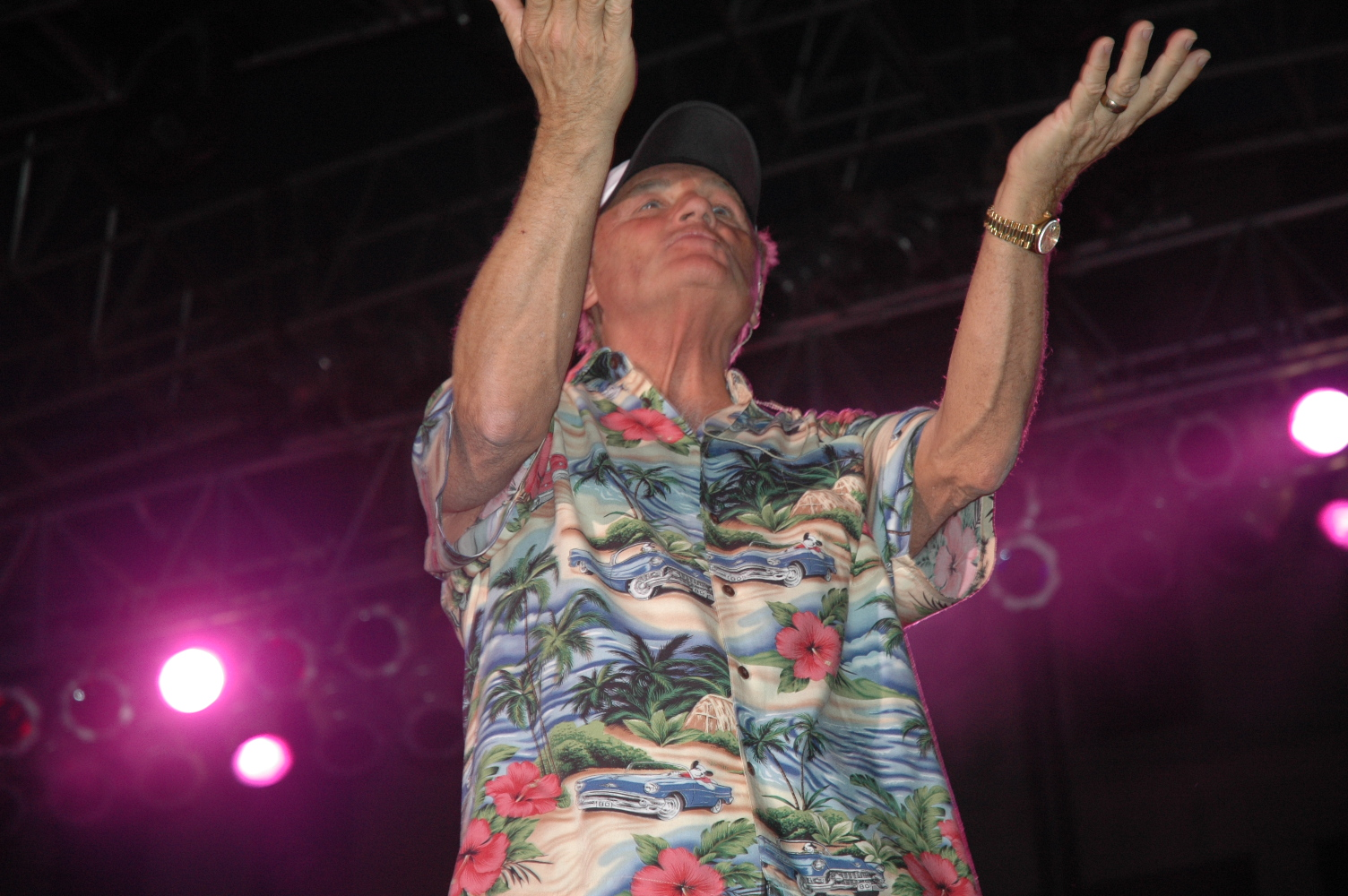 Bruce Johnston in the Beach Boys performance at the City Stages 2006 festival, Birmingham, Alabama